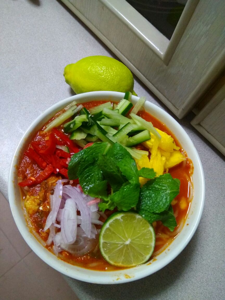 Cooking South East Asian laksa with tamarind.